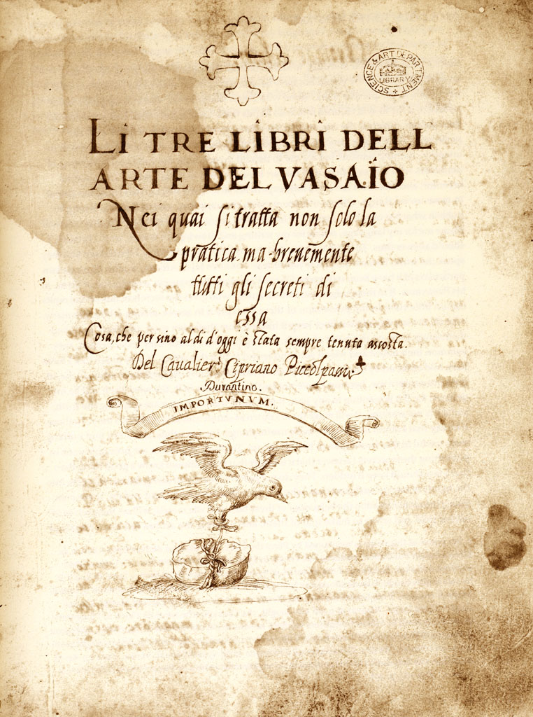 I tre libri dell'arte del vasaio, by Cipriano Piccolpasso (1524 Casteldurante – 21 November 1579) was an architect, historian, ceramist and painter of Italian majolica, author of several treatises on ceramics and design of fortresses.